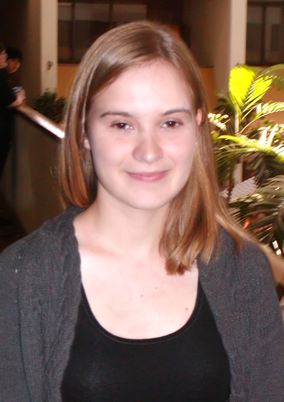 Emily Hagins, the teenaged film producer who created Pathogen.